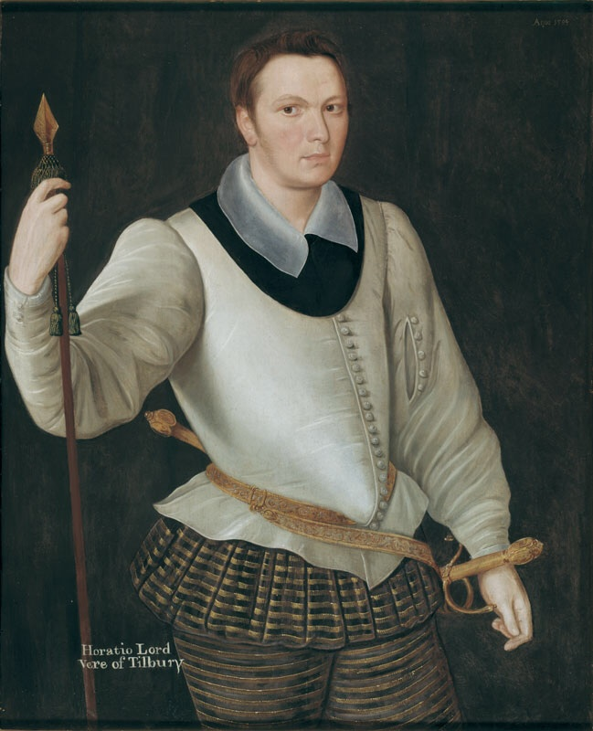 Portrait of Horace, Lord Vere of Tilbury, attributed to George Gower.